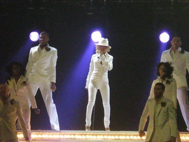 Christina Aguilera performing in Toronto, Ontario during her Back to Basics Tour in March 2007.